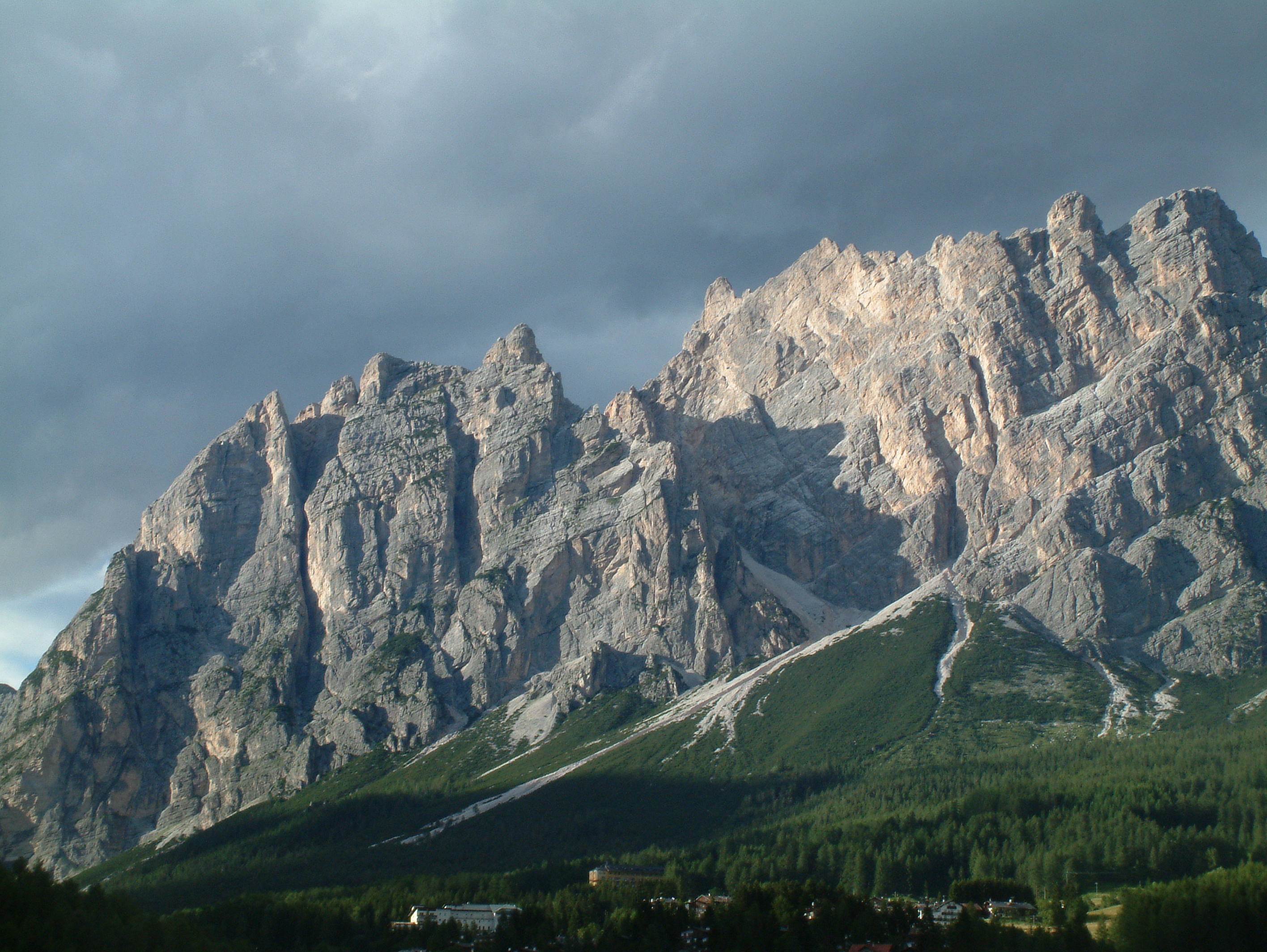 The Dolomites (a section of the Alps) near Cortina d'Ampezzo, a popular winter sport resort in the province of Belluno, Veneto, northern Italy. Punta Fiammes (2240m), Forcella Pomagagnon (2178m), Croda di Pomagagnon (2450m) (from left to right)